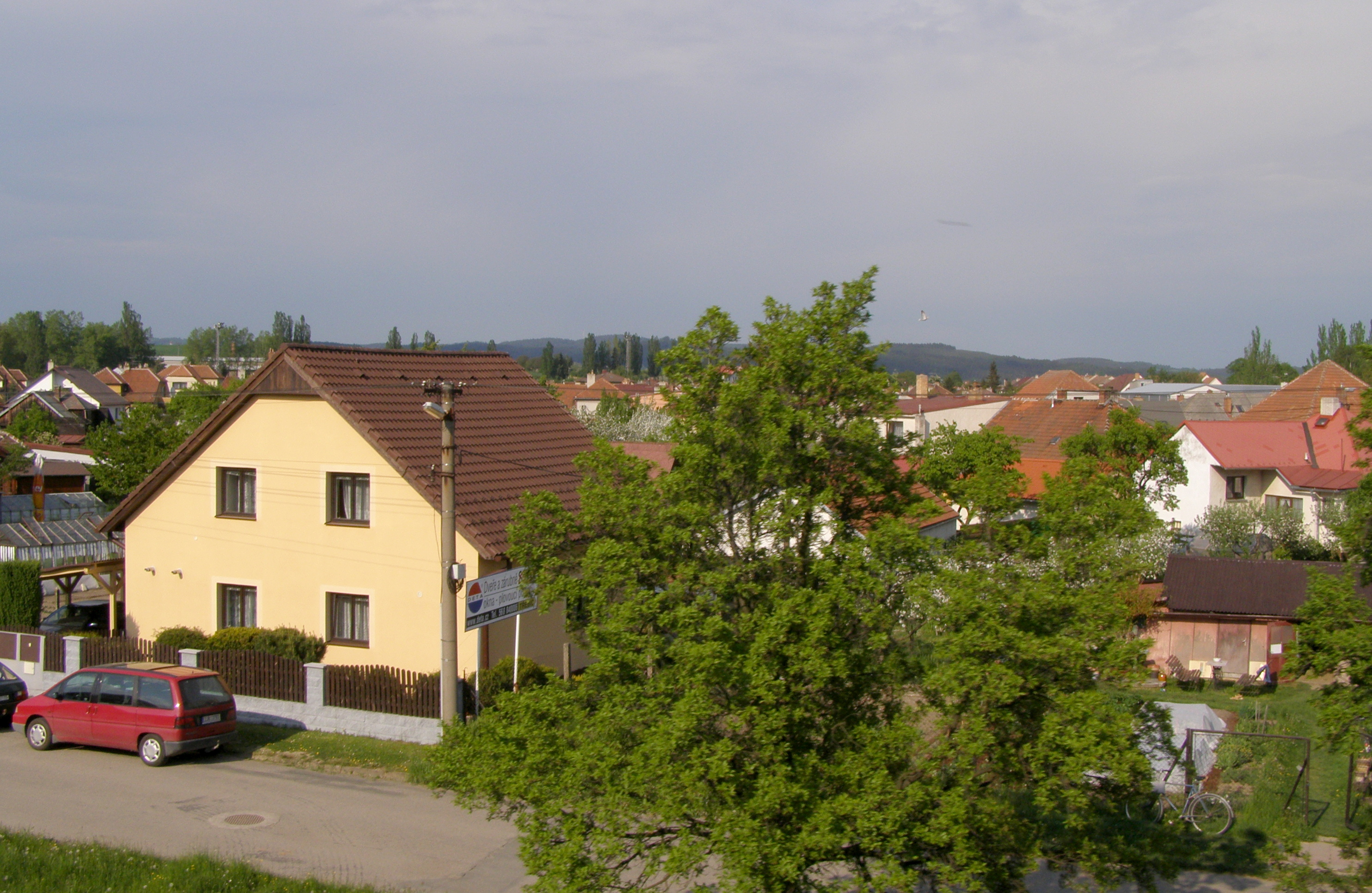 Okříšky town